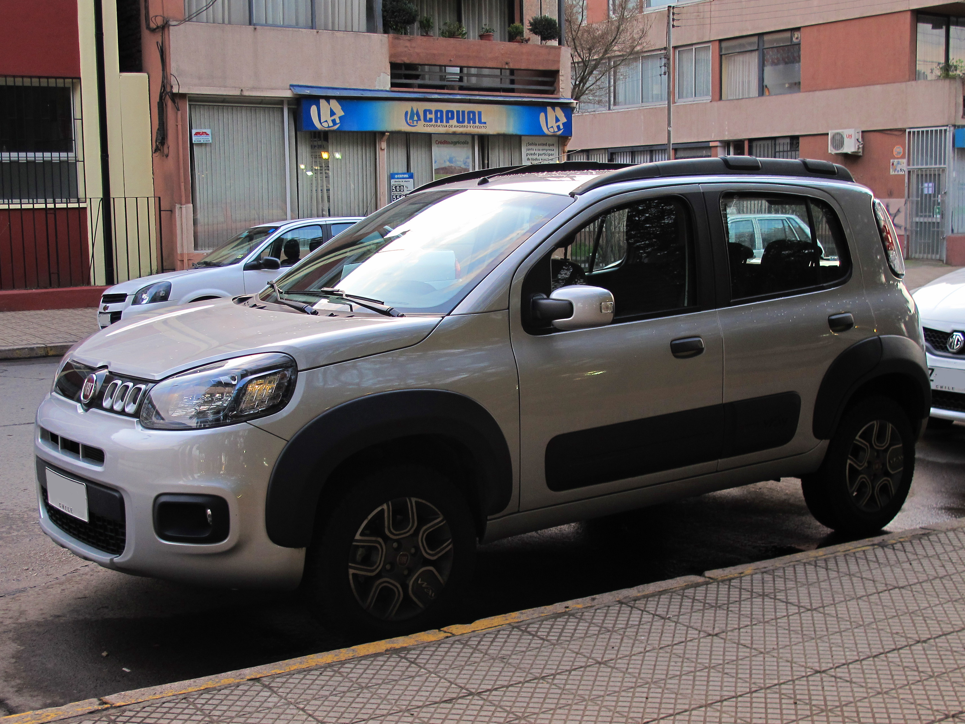 Fiat Uno 1.4 Way 2015